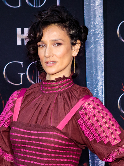 Indira Varma at the Game of Thrones Season 8 World Premiere at Radio City Music Hall, April 3, 2019. Photo by Sachyn Mital.